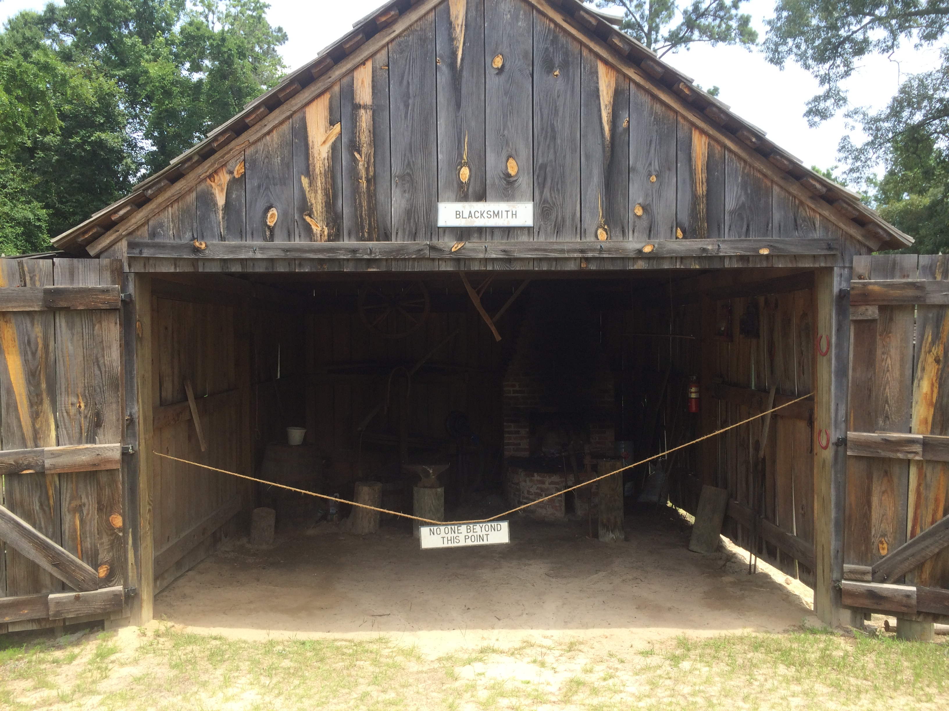 Blacksmith shop inside Fort Mitchell. Blacksmith demonstrations are held here regularly.